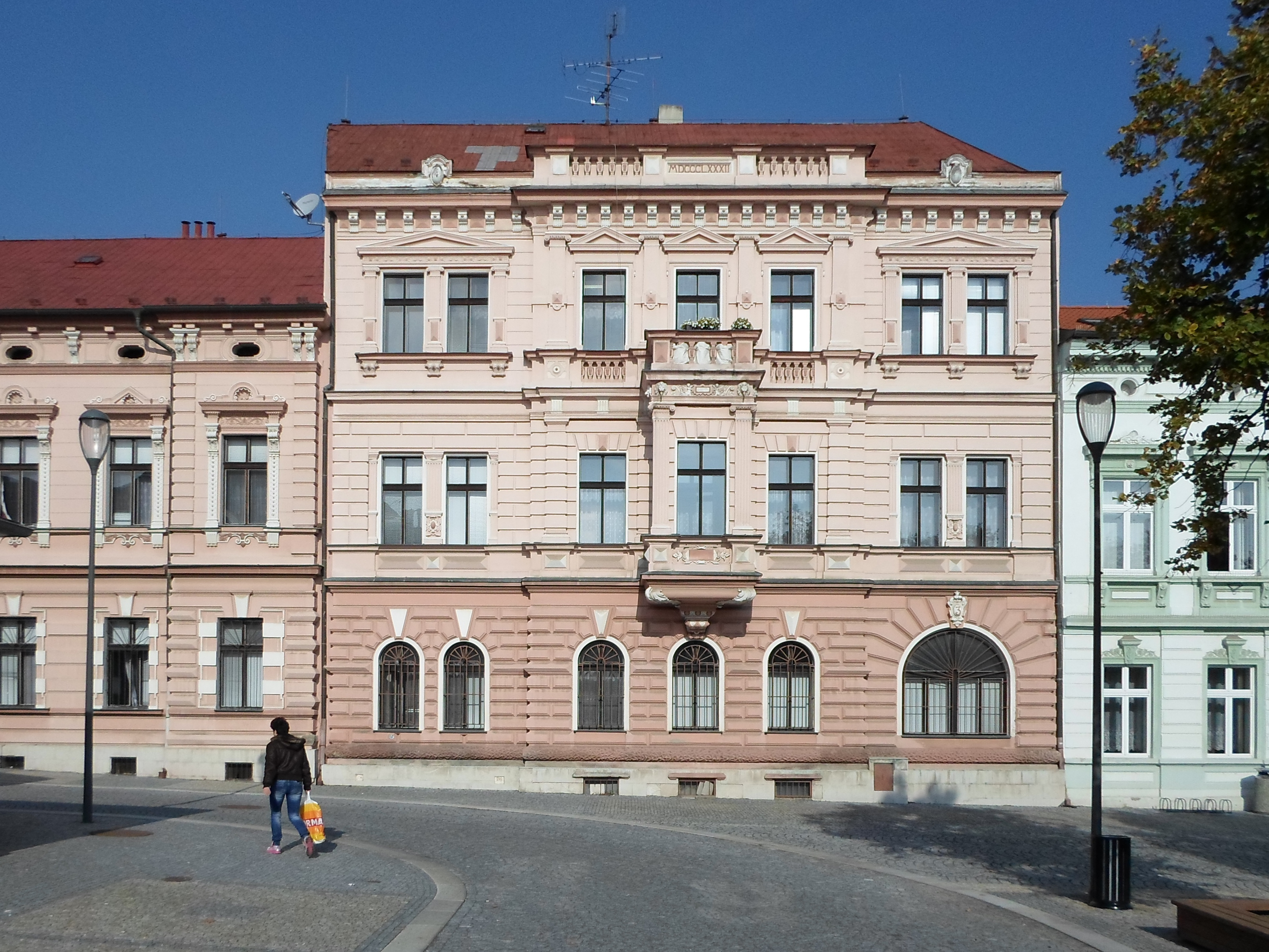 Post Office Building from 1882